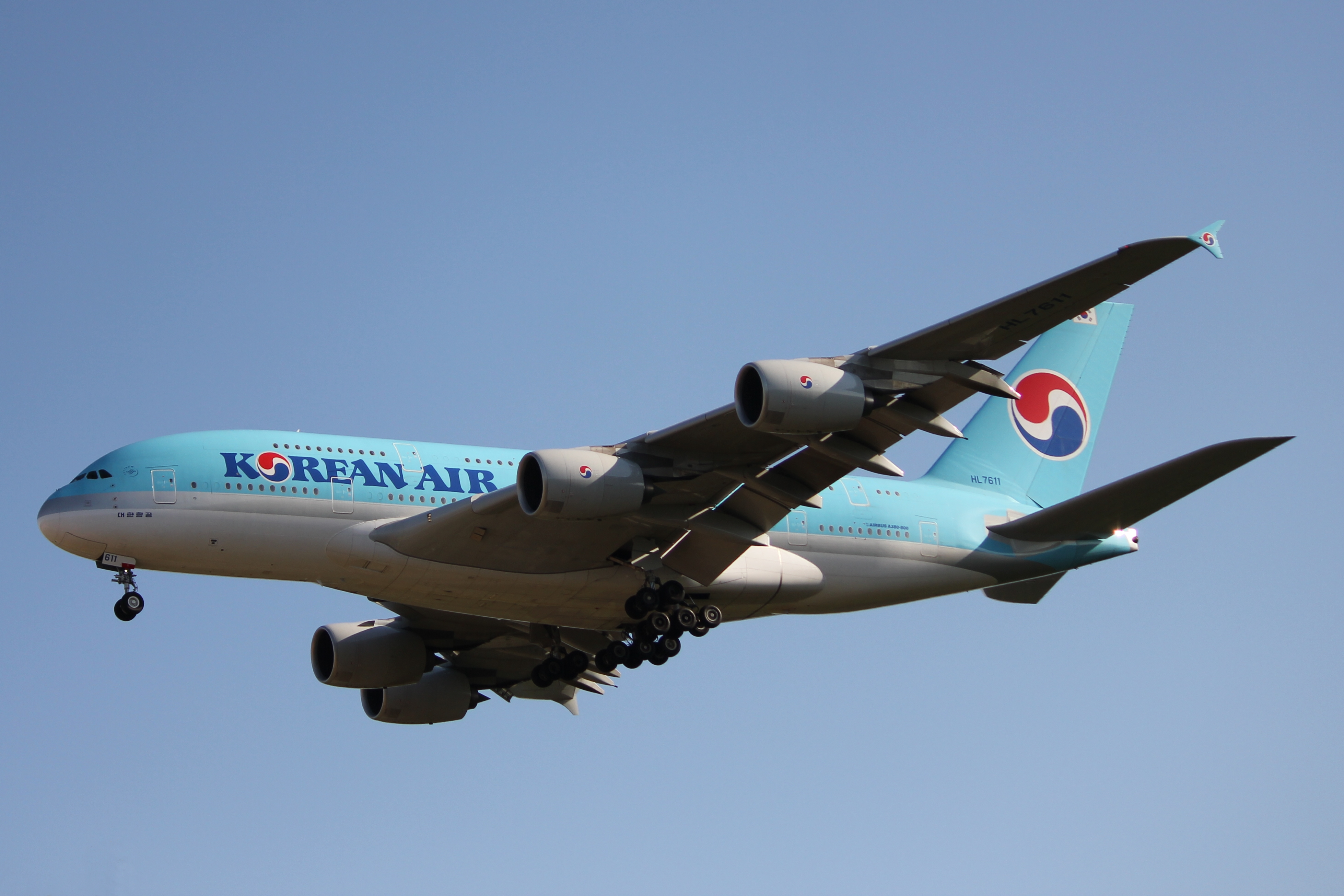 An A380 of Korean Air landing at Frankfurt Airport